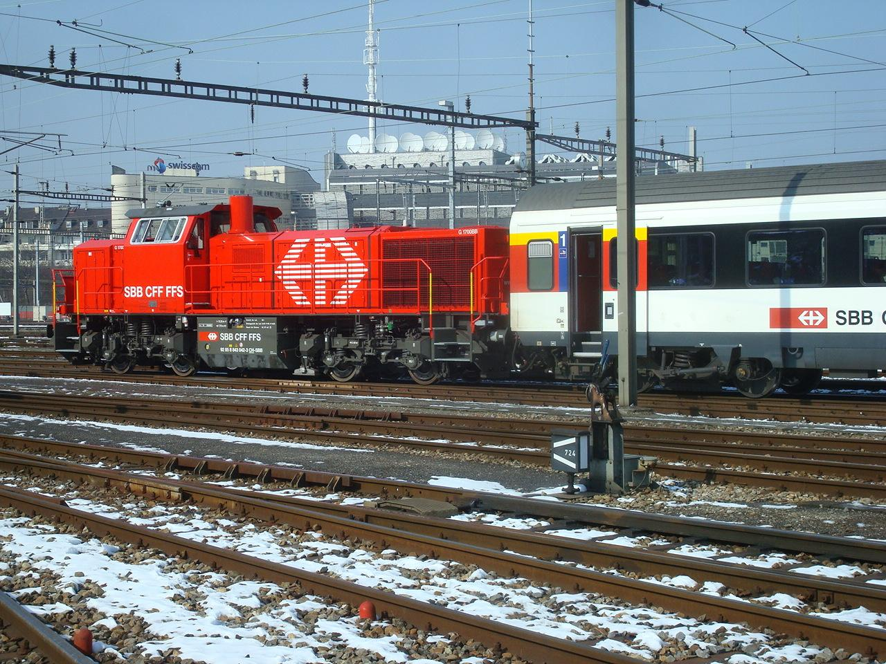 SBB-CFF-FFS Am 843 (G 1700-2 BB) shunting in Basel